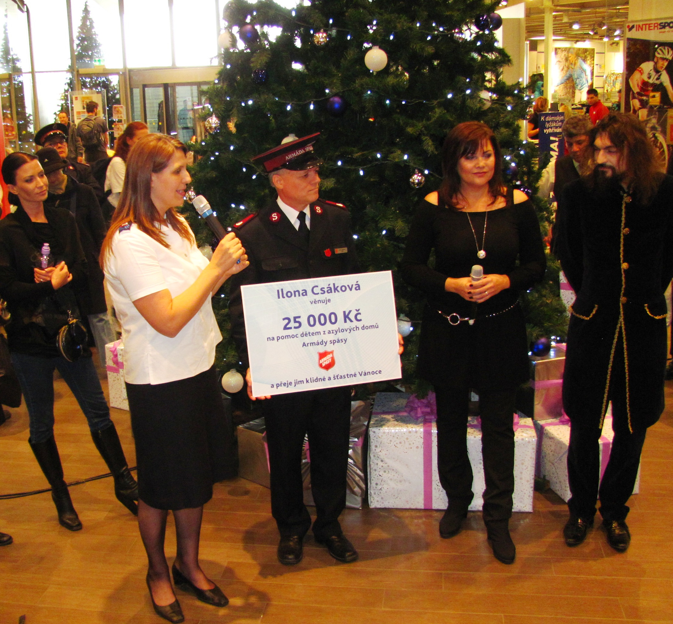 Major Michael R.Stannett with a cheque from Ilona Csáková, Czech singer at a Charity Event of Salvation Army in Praha 6